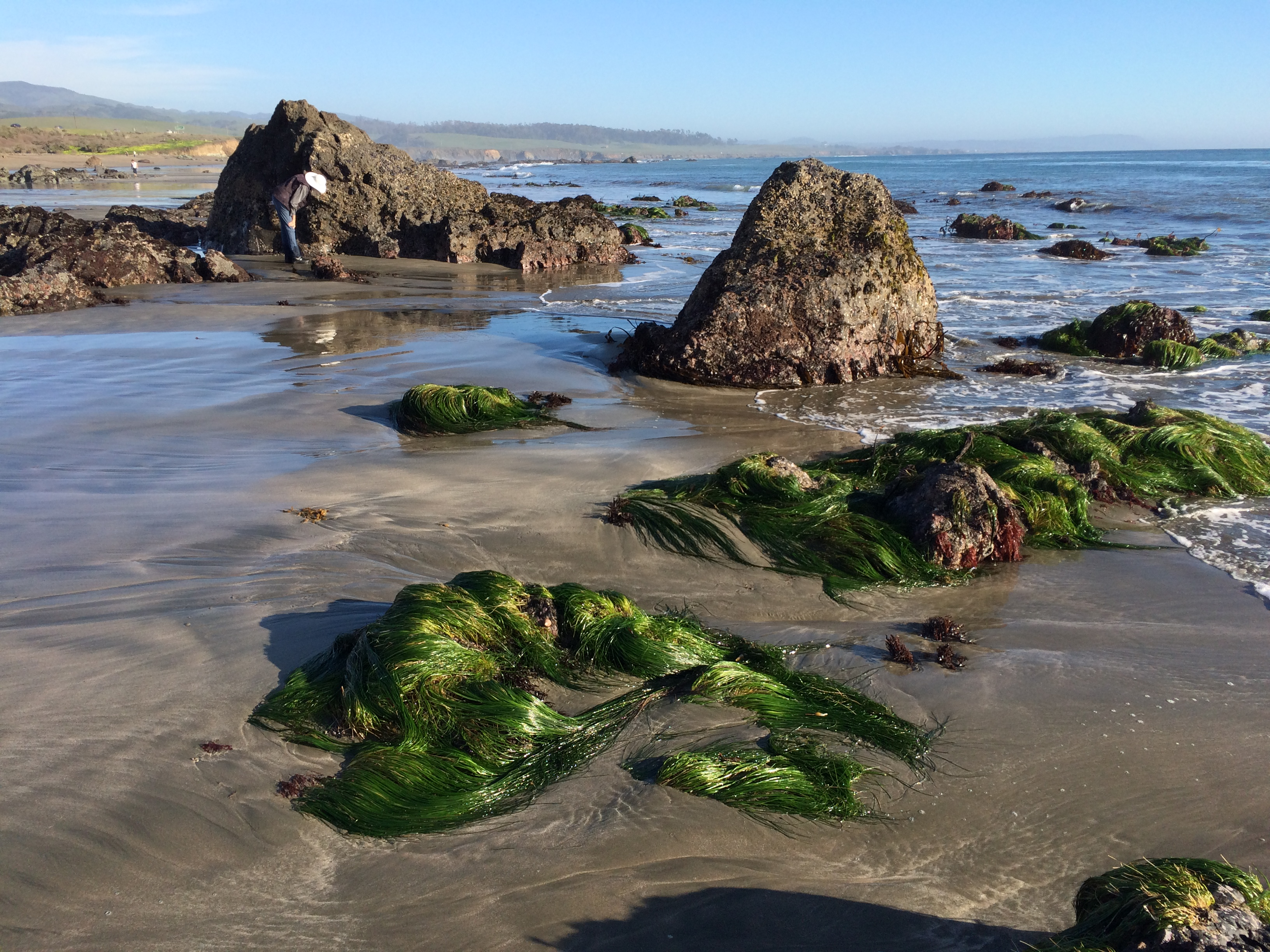 Surfgrass growing at Hearst Beach, San Simeon CA, minus 1.3 ft. low tide